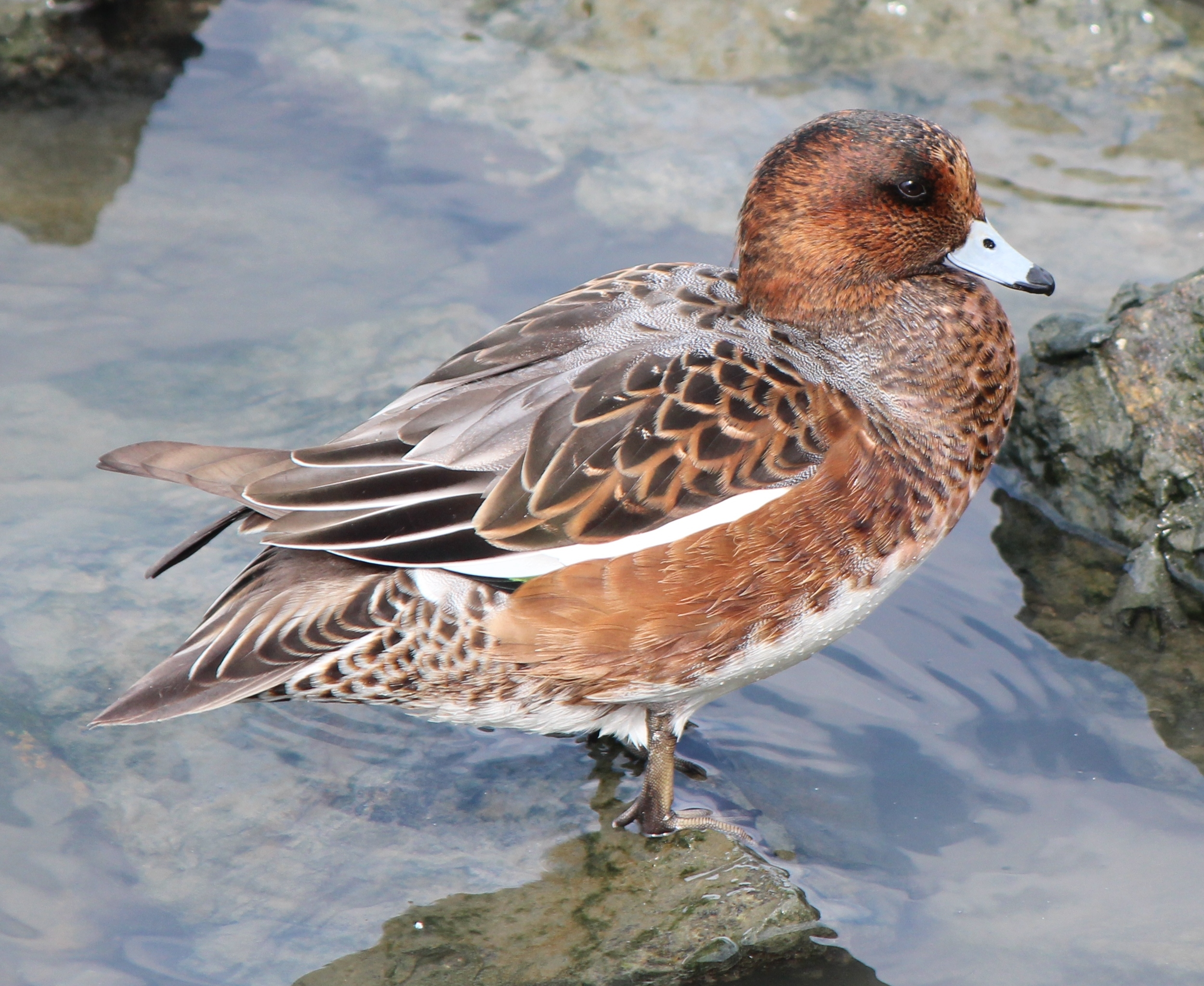 Eclipse of Eurasian Wigeon (Anas penelope) crying, in Fujimae-higata, Nagoya, Aichi prefecture, Japan.